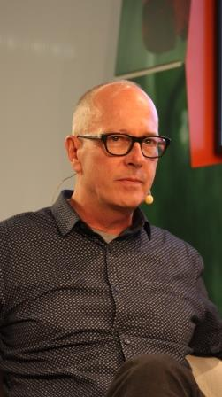 Andreas Föhr, Book Fair 2016 in Frankfurt/Main